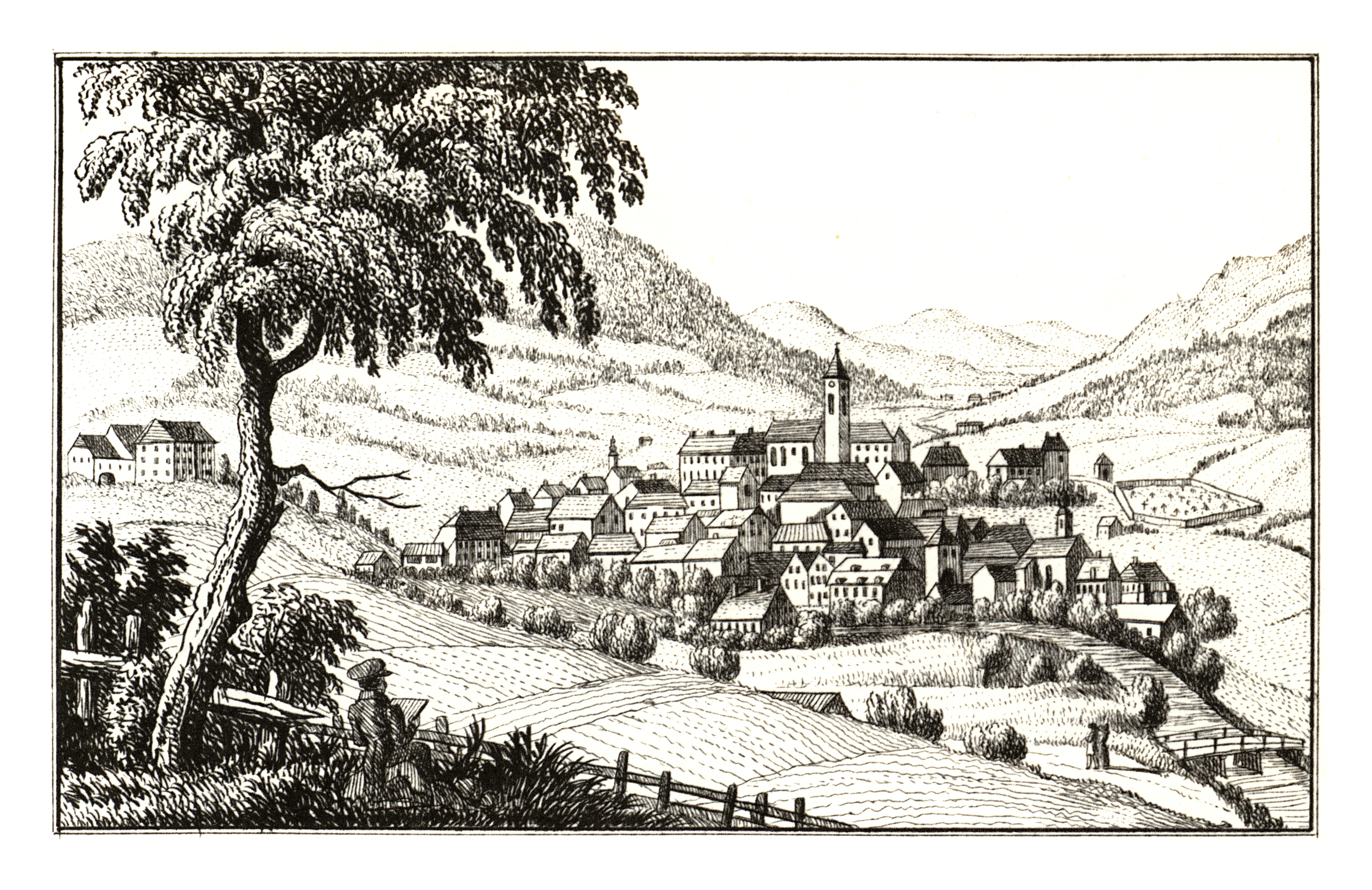 J. F. Kaiser - lithographirte Ansichten der Steyermärkischen Städte, Märkte und Schlösser, Graz 1824-1833 Joseph Franz Kaiser (1786–1859) Alternative names J. F. KaiserDescriptionAustrian printer and editorDate of birth/death 11 March 1786 19 September 1859Location of birth/death Graz (Styria) GrazAuthority control : Q1499963 VIAF: 30629353 ISNI: 0000 0000 3083 0153 LCCN: n87141671 GND: 129880159 NLP: A24960305 WorldCat creator QS:P170,Q1499963 . Scanprojekt Community Projektbudget 2012 This scan or this PDF-file was created within the GLAM-project Bookscanning, supported by Wikimedia Germany and Wikimedia Austria as a part of the community-project to capture books, documents and pictures which are not eligible to copyright or for which the copyright has expired. This document describes or depicts an object which is located in Austria today. Send requests for uncompressed scans to Hubertl. This work is in the public domain in its country of origin and other countries and areas where the copyright term is the author's life plus 100 years or less. You must also include a United States public domain tag to indicate why this work is in the public domain in the United States. This file has been identified as being free of known restrictions under copyright law, including all related and neighboring rights.